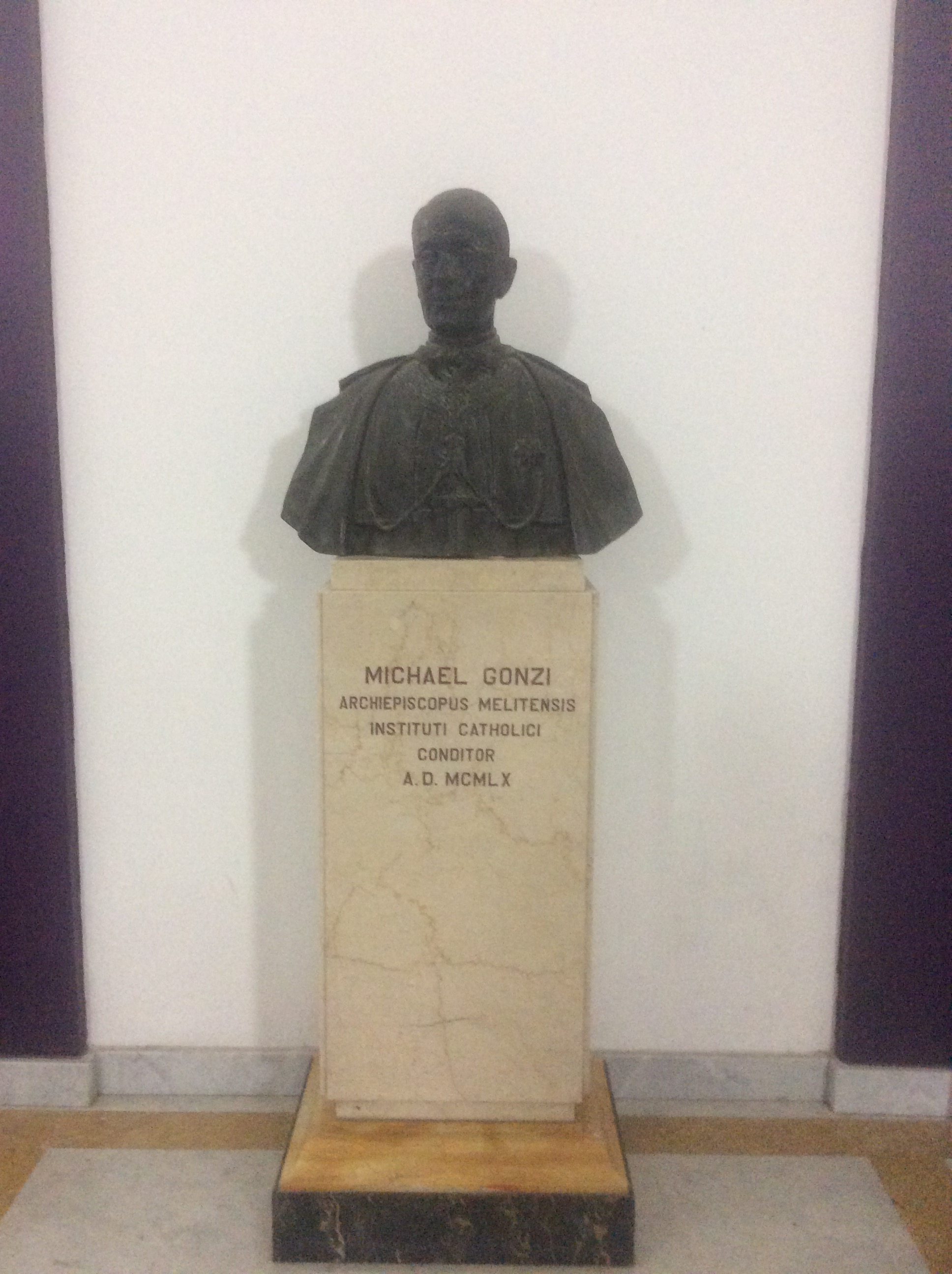 Michael Gonzi Monument - Catholic Institute